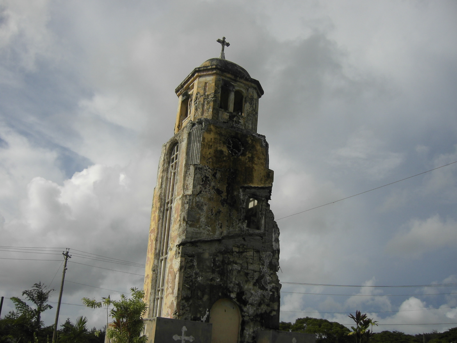 Old Church - San Jose Tinian